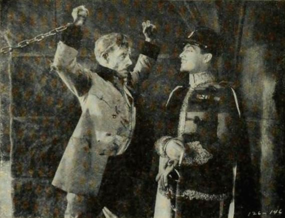 Still from the American film The Prisoner of Zenda (1922) with Lewis Stone and Ramon Novarro, on page 52 of the July 1922 Photoplay.